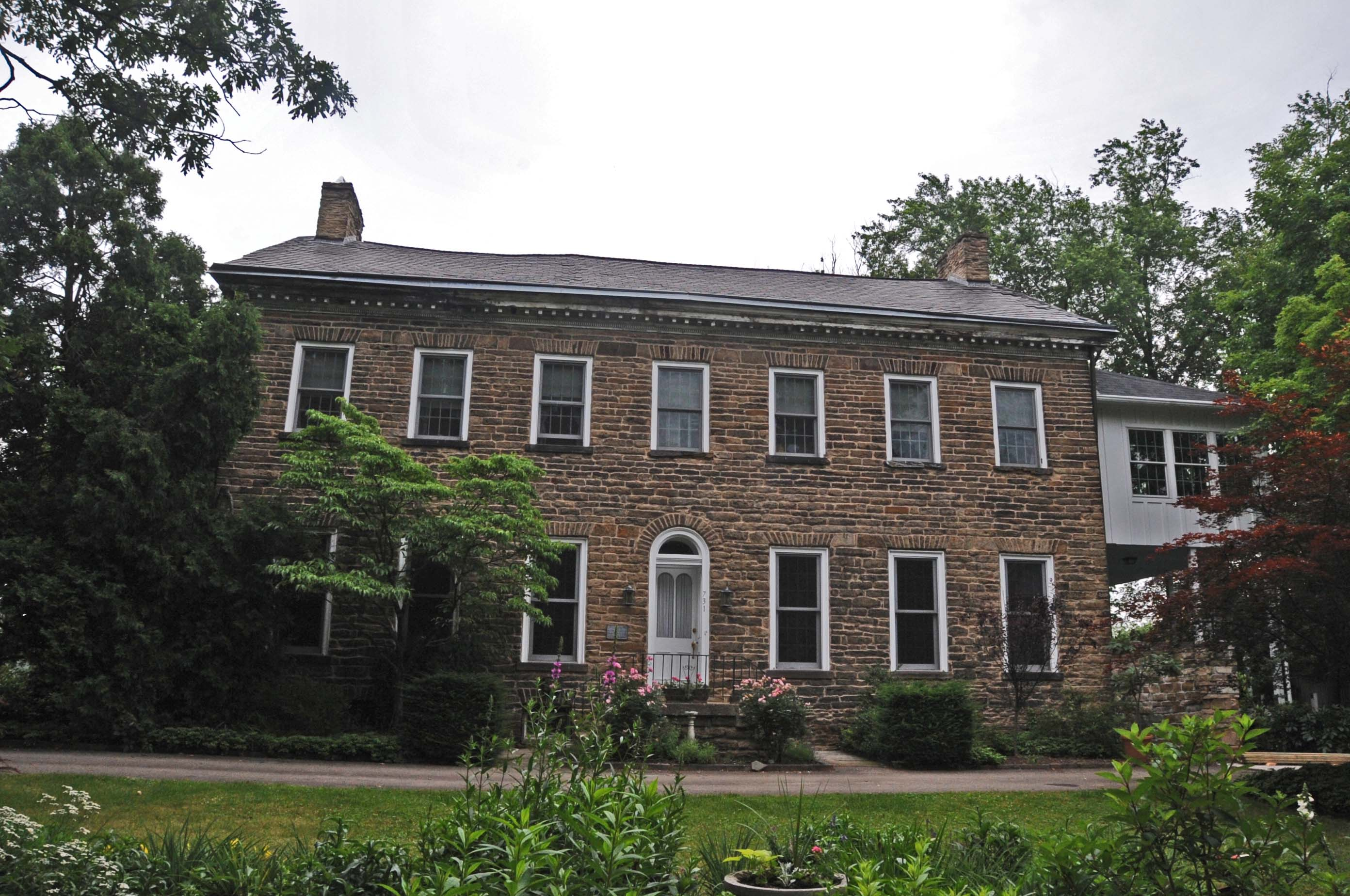 BUILT IN 1792 BY COLONEL JOHN IRWIN AND WAS FIRST MANSION WEST OF THE ALLEGHENY MOUNTAINS. Brush Hill was listed on the NRHP on October 14, 1975. Located at 731 Brush Hill Road. 40°19′30″N 79°41′22″W near Irwin, Pennsylvania